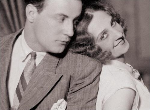 Johannes Heesters with his fianceé Wiske Ghijs in 1928.